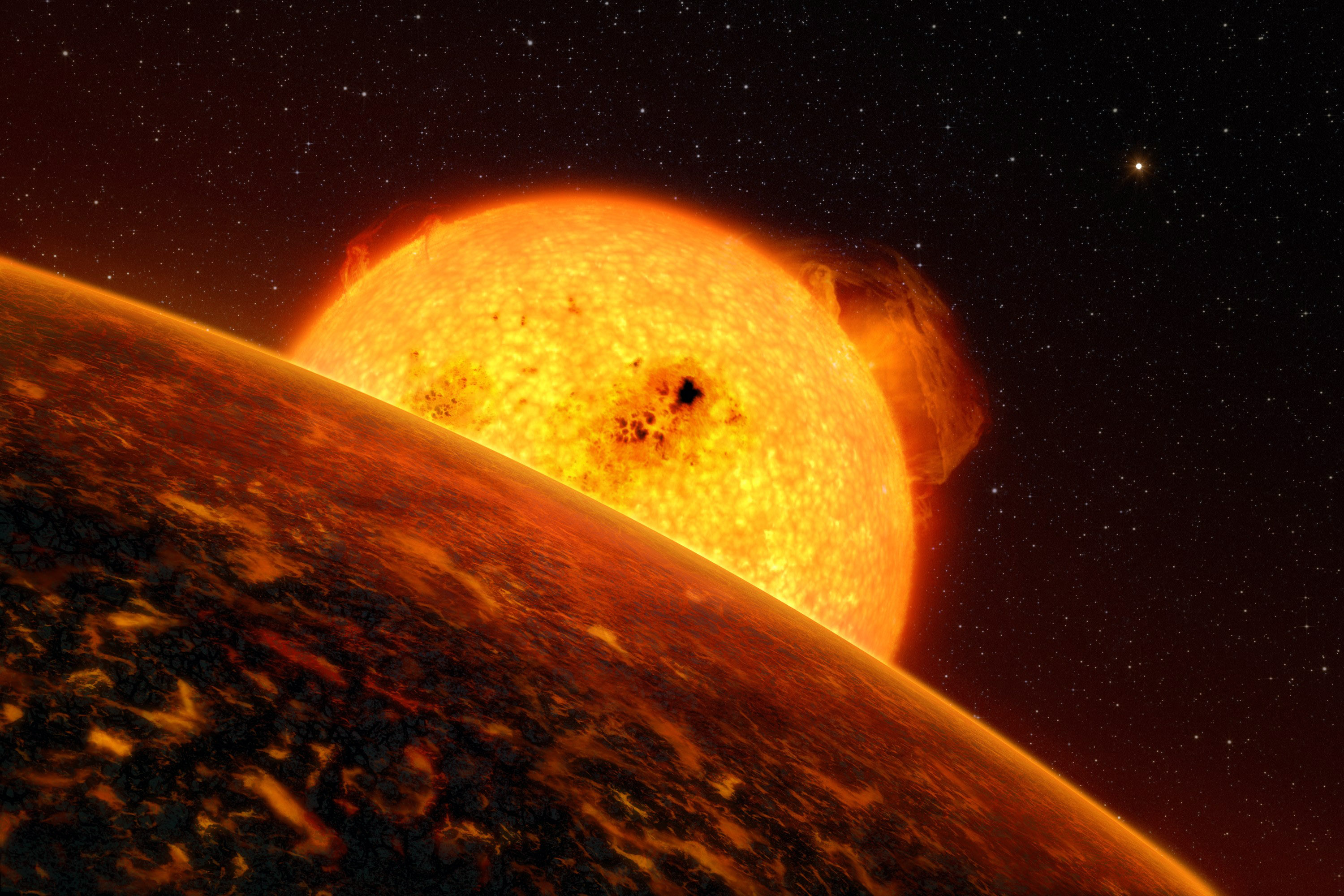 The exoplanet Corot-7b is so close to its Sun-like host star that it must experience extreme conditions. This planet has a mass five times that of Earth’s and is in fact the closest known exoplanet to its host star, which also makes it the fastest — it orbits its star at a speed of more than 750 000 kilometres per hour. The probable temperature on its “day-face” is above 2000 degrees, but minus 200 degrees on its night face. Theoretical models suggest that the planet may have lava or boiling oceans on its surface.